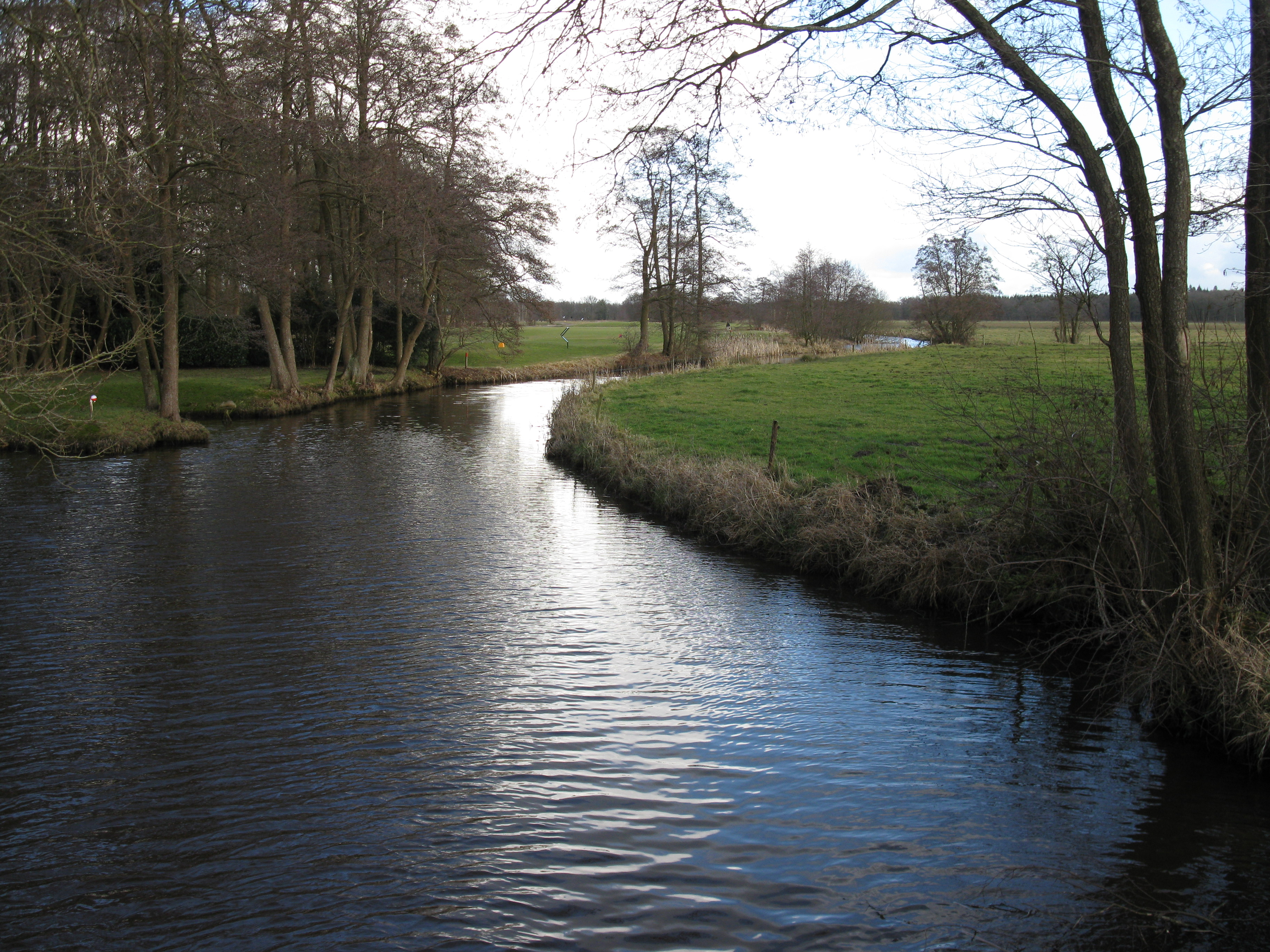 picture of the river De Boorne, south of Beetsterzwaag